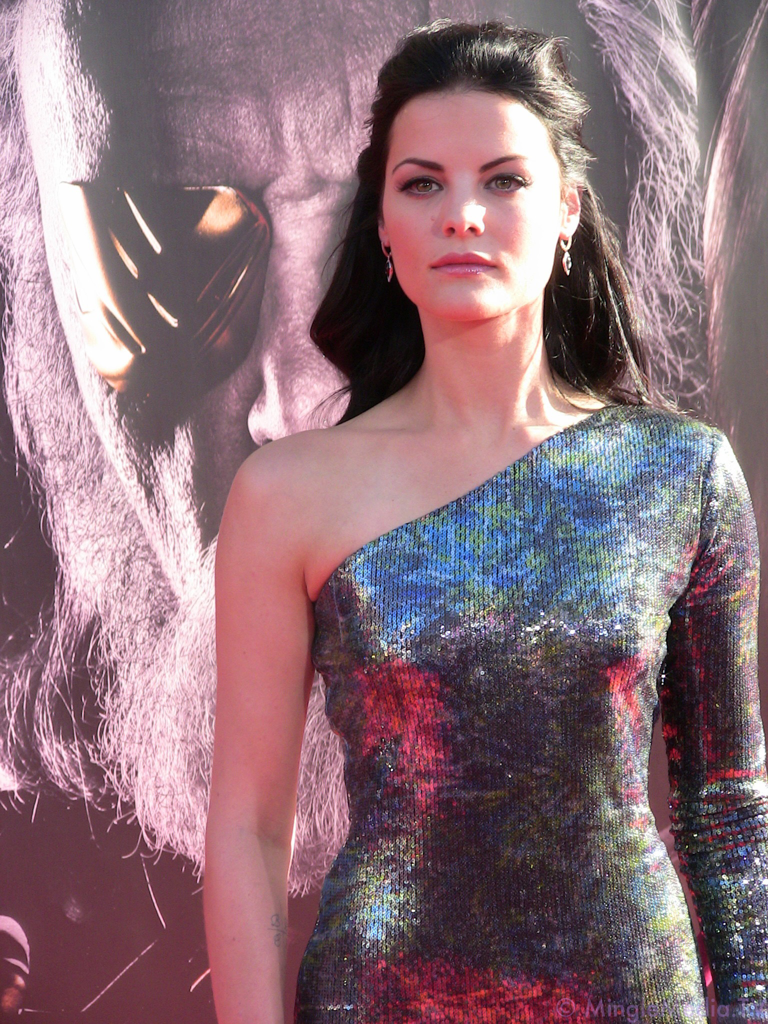 Jaimie Alexander at the world premiere of the movie Thor